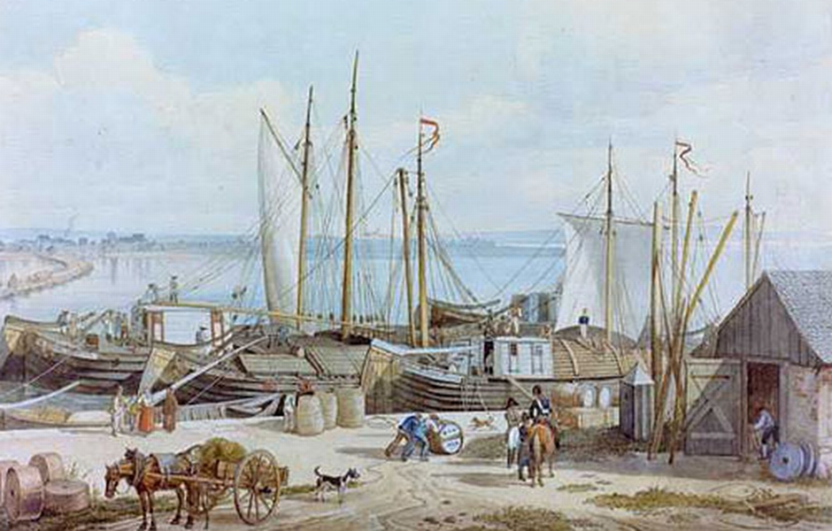 A panting showing a scene in the port of Mainz, Germany sometime in the early-to-middle 19th century.